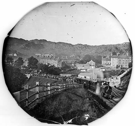 1 negative : glass, wet collodion, b&w ; 16.5 x 21.5 cm.